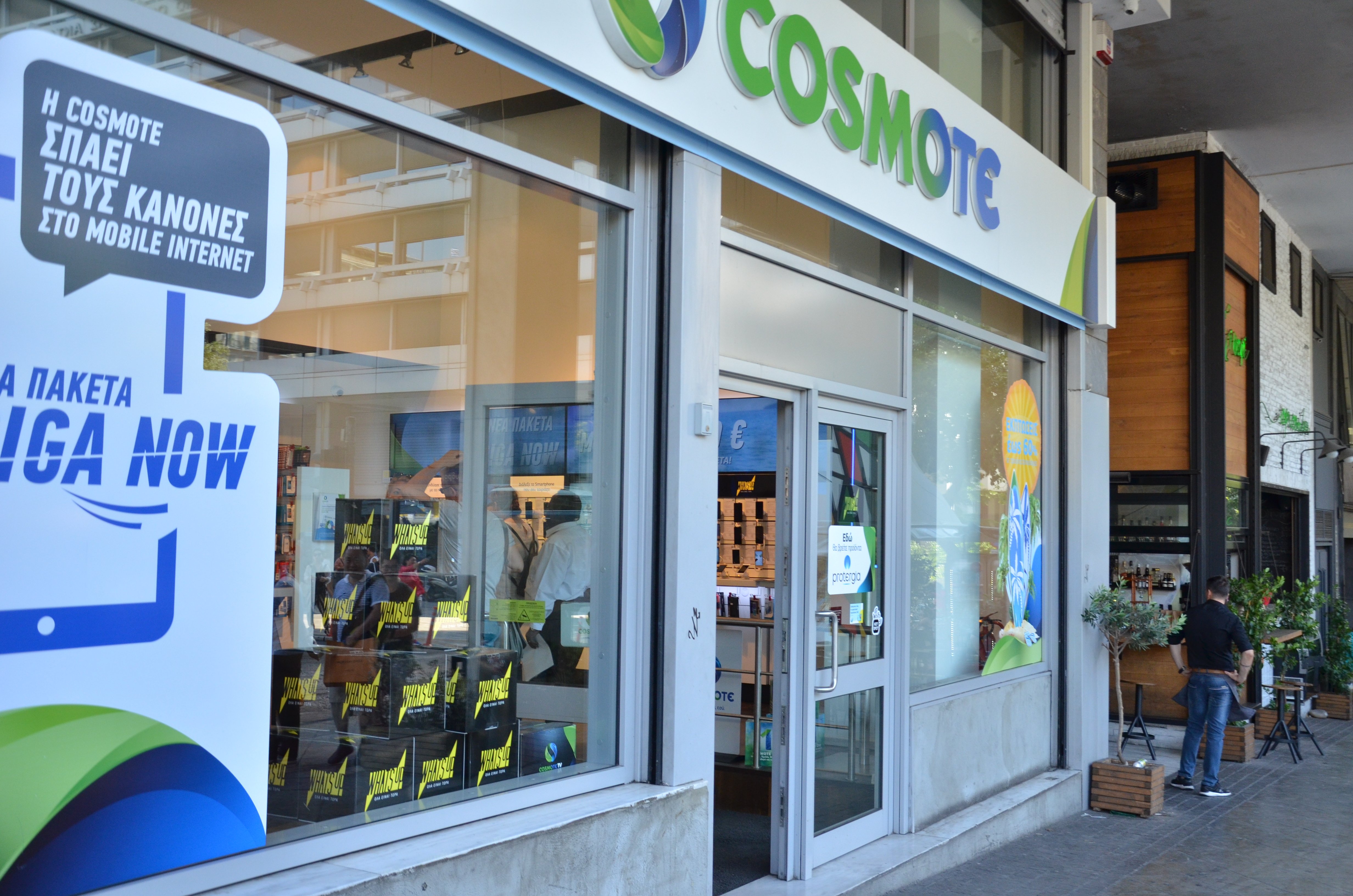 Cosmote shop in Athens, Greece. August 2017